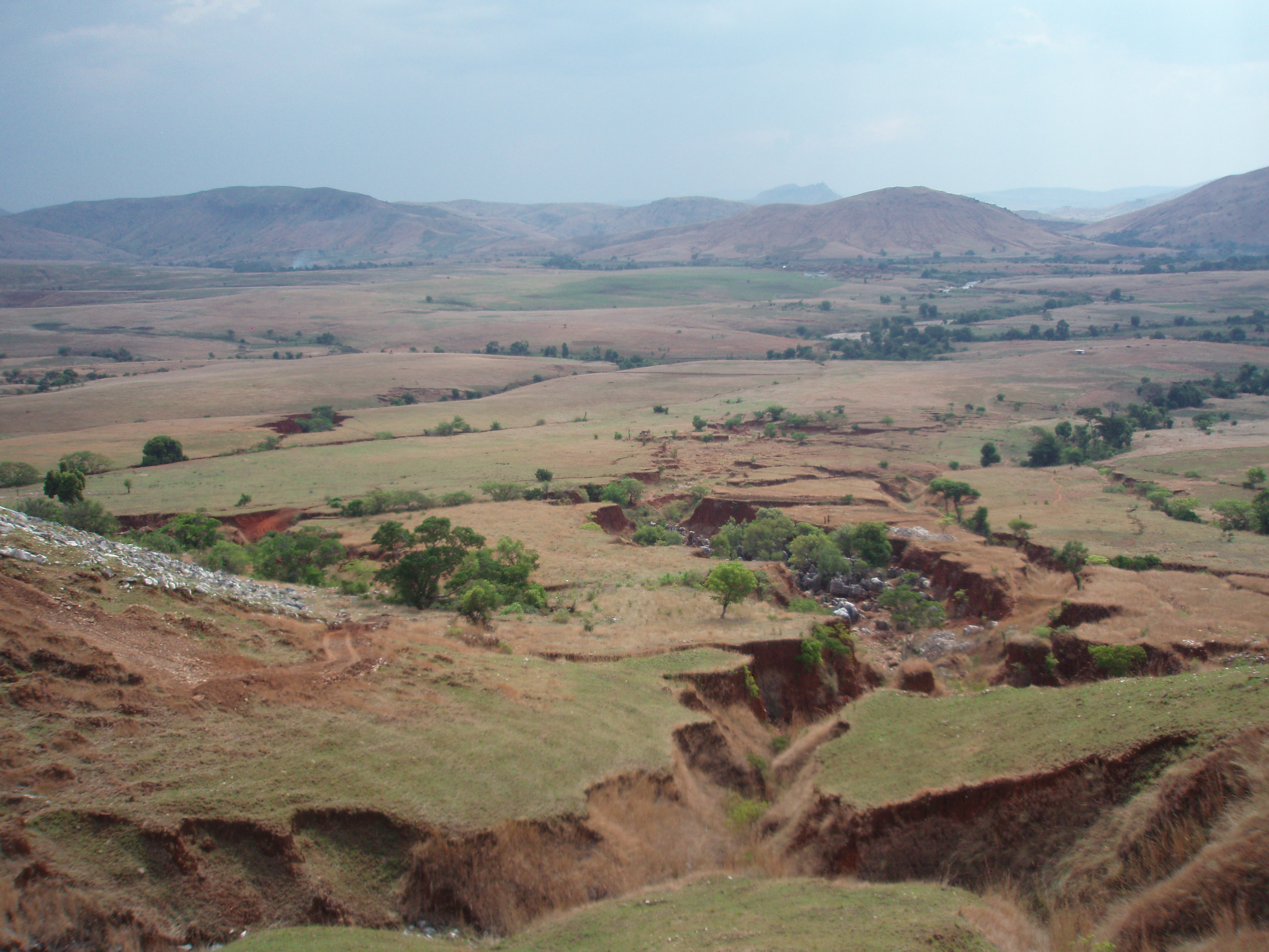 In the center of the image the historical Anosivola mine of the pre-WWI area (Concession Lecomte). View to the West.